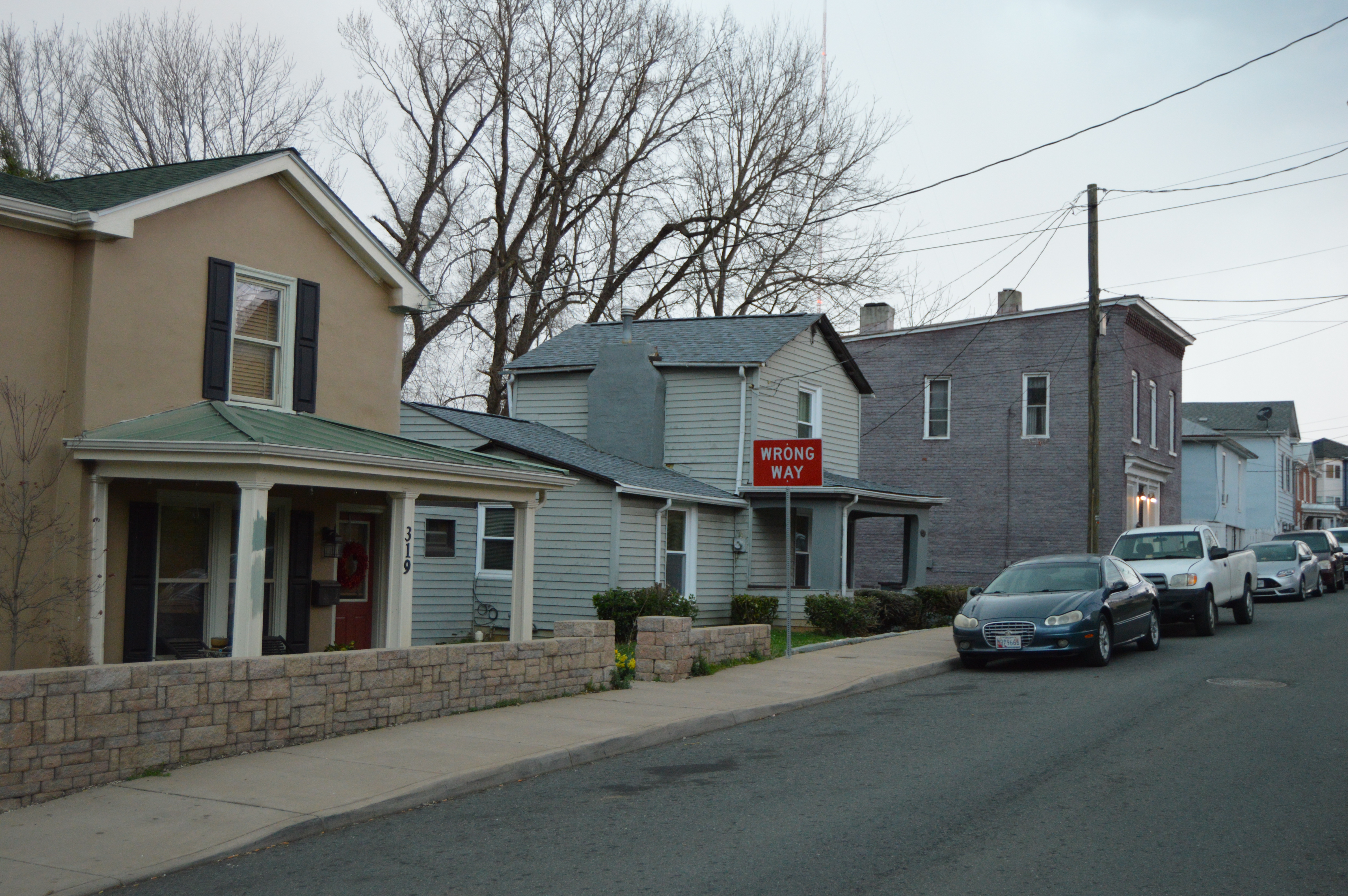 Houses on the western side of Fifth Street between Oak and Dice Streets in Charlottesville, Virginia, United States. They are part of the Fifeville and Tonsler Neighborhoods Historic District, a historic district that is listed on the National Register of Historic Places.